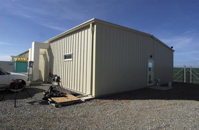 The new detainee psychiatric ward at Camp Delta is expected to be in use by October. Photo provided by JTF-GTMO Combat Camera